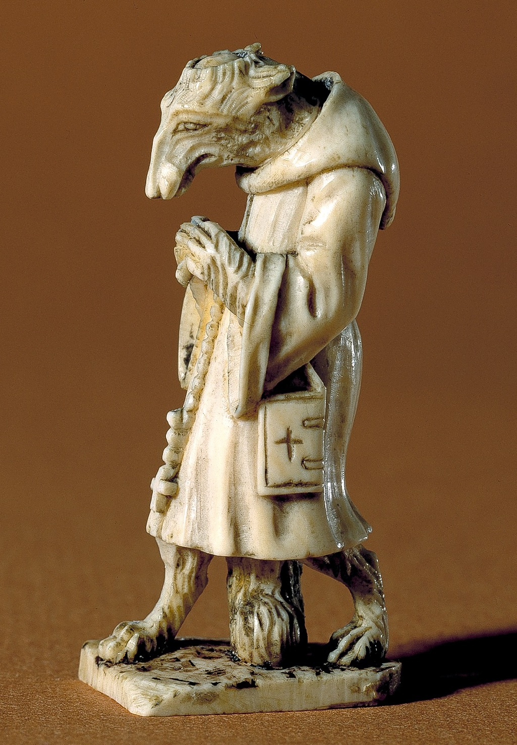 Ivory figure, 6 cm tall, of a fox in a monk costume with a rosary between the paws. Dated to the time of the Reformation in Denmark (1530's)